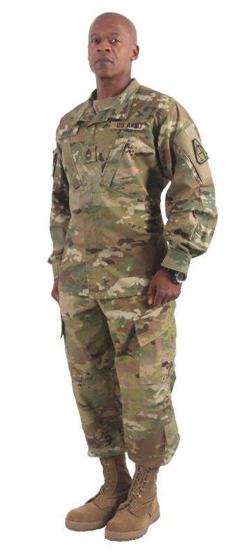 Beginning in the fall of 2015, the Army will begin issuing to new Soldiers an Army Combat Uniform that bears the Operational Camouflage Pattern. That same uniform will also become available in military clothing sales stores in the summer of 2015.